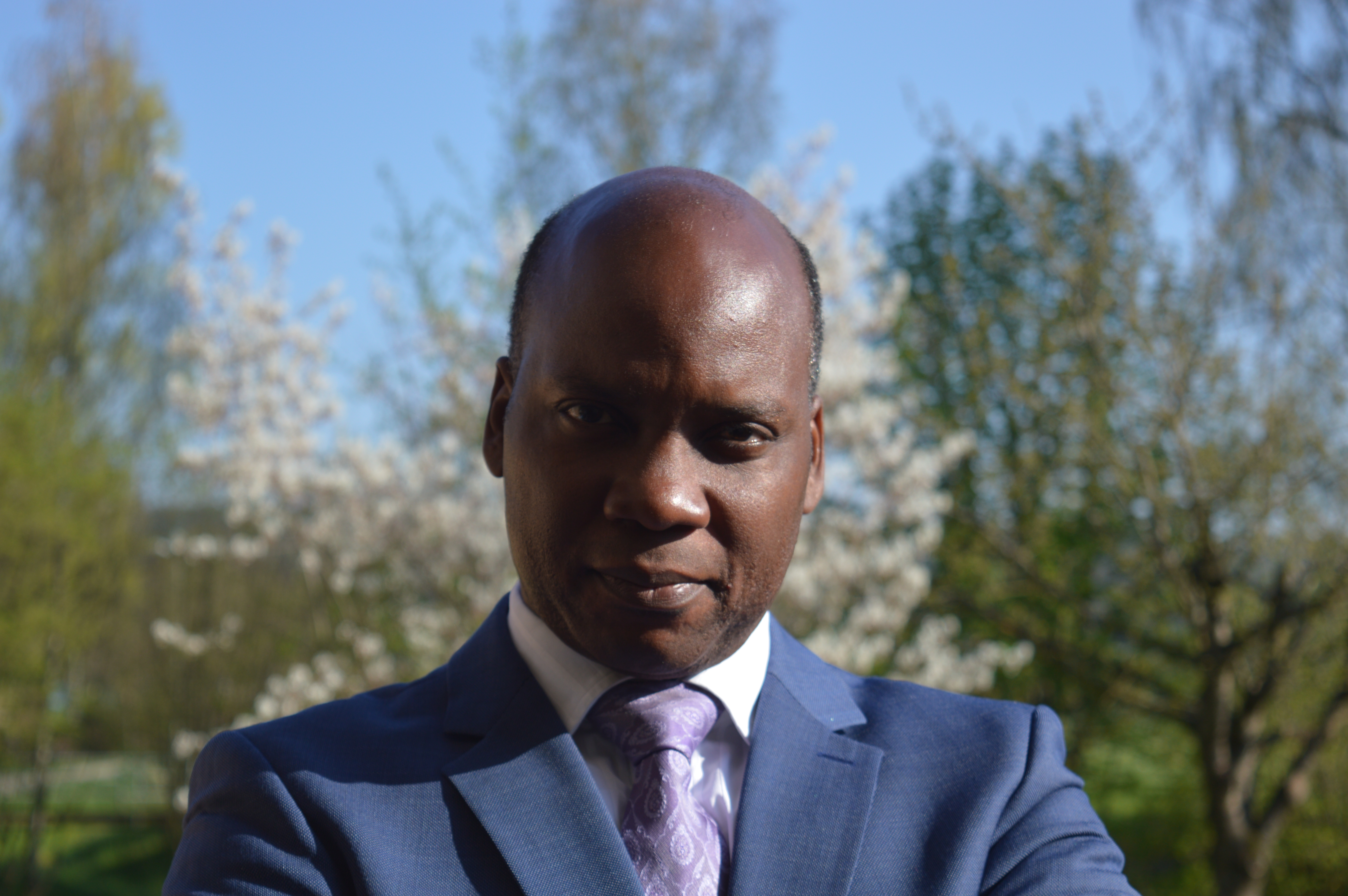 Official Public Image of Timothy Elisha McPherson Jr.